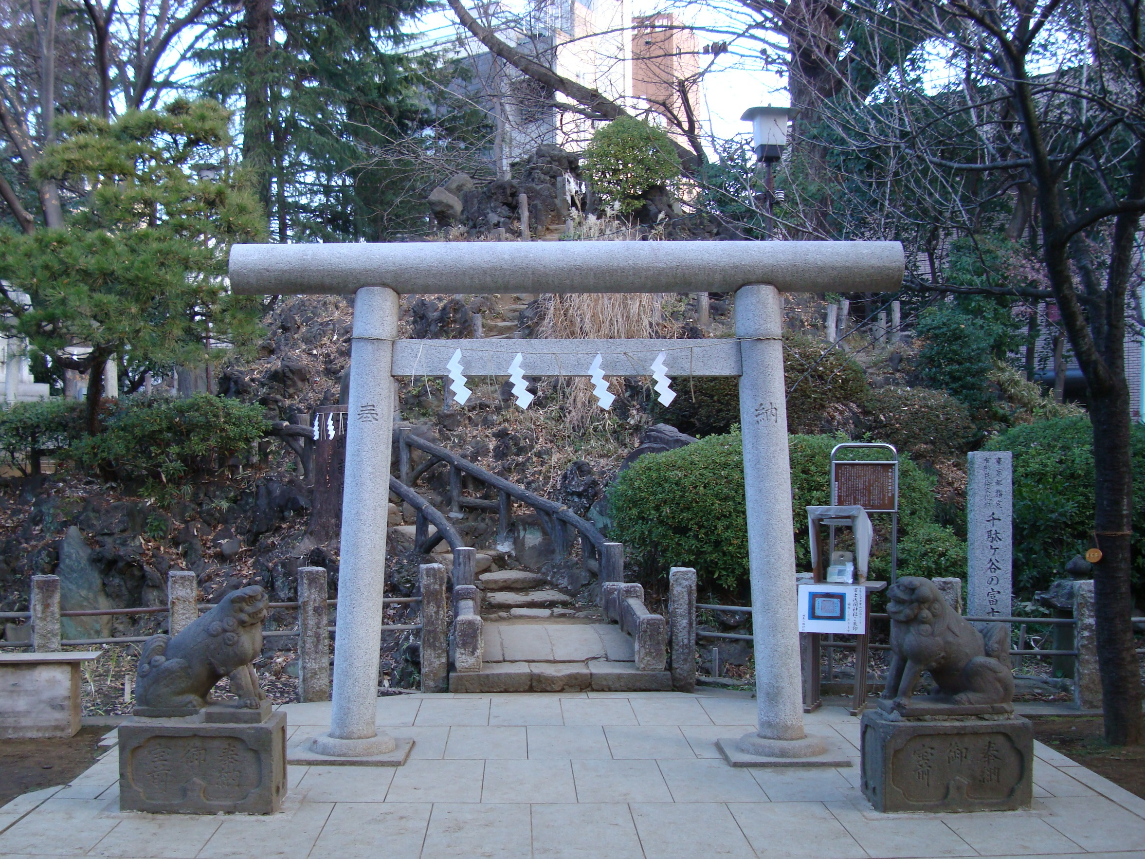 "Fuji-zuka" at Hato-no-mori Hachiman Jinja in Sendagaya, Shibuya-ku, Tokyo.